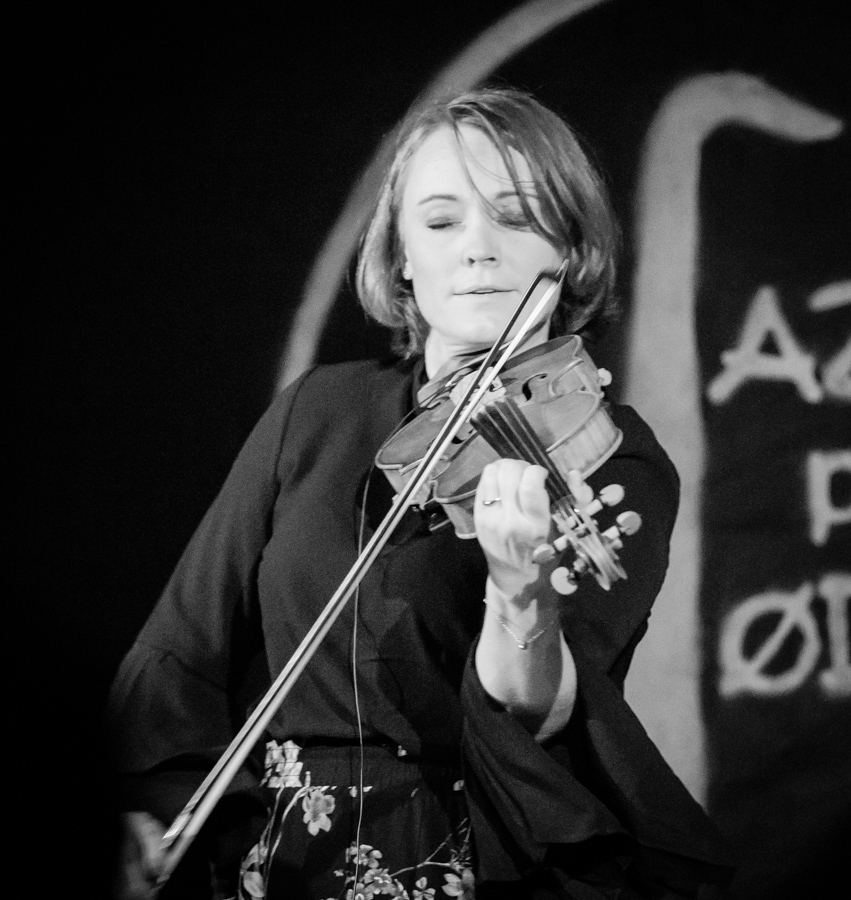 Ragnhild Furebotten with Never on a Sunday at the stage in Fjøsen. The concert was part of Jazz på Jølst and took place at Skei on 13. October 2017. Lineup: Ragnhild Furebotten (fiddle), Helge Sunde (trombonium), Frode Nymo (saxophone), Atle Nymo (saxophone), Marius Haltli (trumpet), Eckhard Baur (trumpet) and Lars Andreas Haug (tuba).